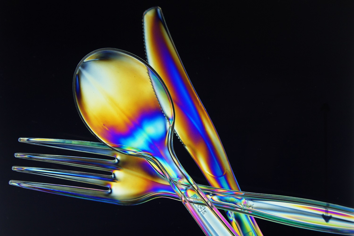 Clear plastic cutlery changing the polarization state of light between crossed polarizers